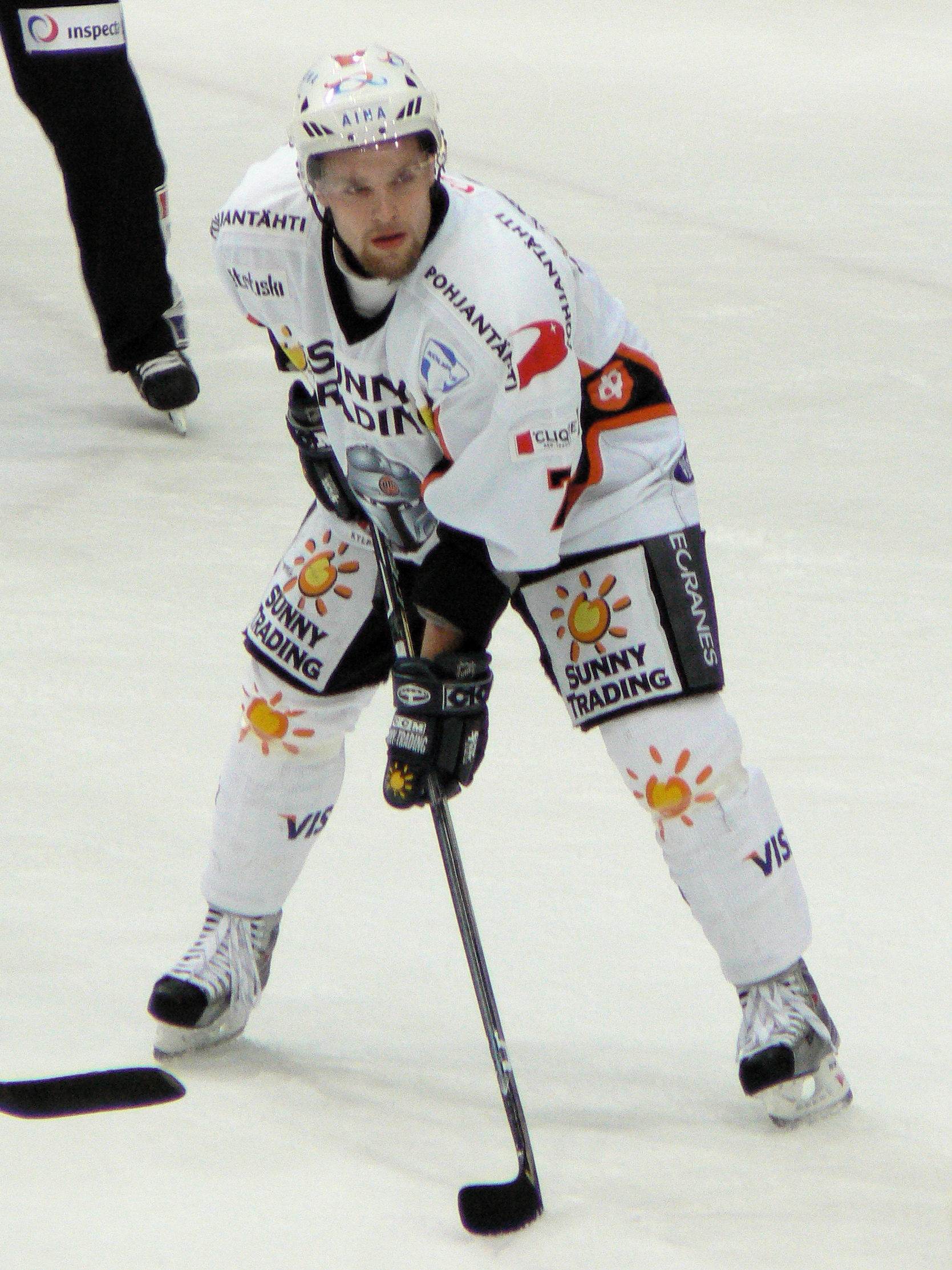 Finnish ice hockey defenseman Mikko Mäenpää of HPK Hämeenlinna in January 2008.